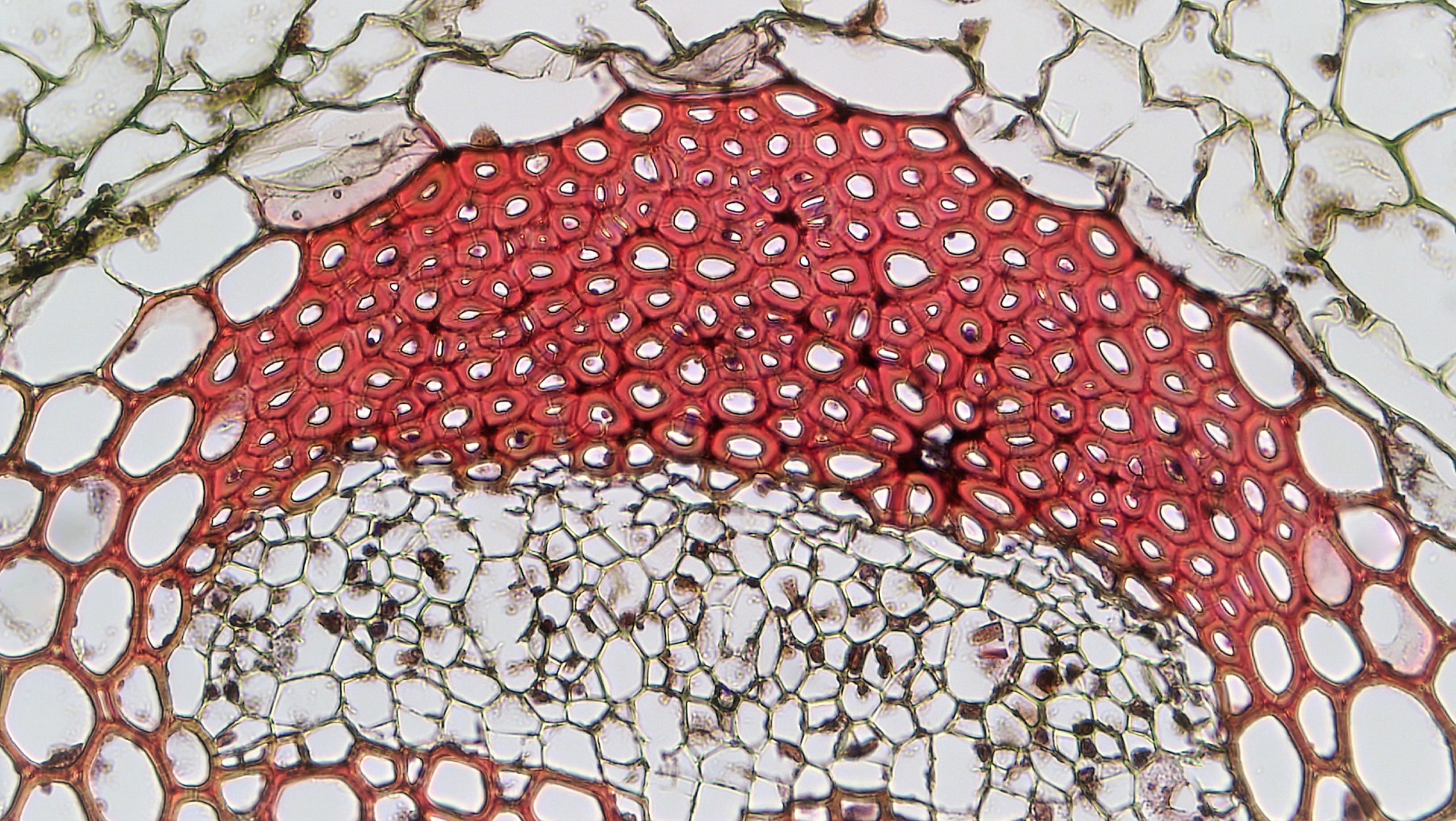 cross section: Young stem: Helianthus common name: Sunflower magnification: 400x All vascular tissues in Helianthus are the product of primary growth. There are no signs of secondary growth (growth rings or lateral meristems) as might be seen in woody stems. Within the stele the vascular bundles are arranged in a ring and separated from each other by wide medullary rays of parenchyma cells. The collaterally arranged vascular bundles are almost entirely primary phloem and xylem. Each bundle consists of a large outer supportive cap of sclerenchyma fibers (phloem fiber cap), a deeper layer of primary phloem with well-defined sieve tubes and companion cells, and a deepest layer of primary xylem. In between the xylem and phloem, a narrow band of cambium may be seen. In some preparations, the highly lignified cells walls of xylem and mature sclerenchyma are stained red orange. These cells are dead at maturity and can also be distinguished by a heavy cell wall and absence of cytoplasm.